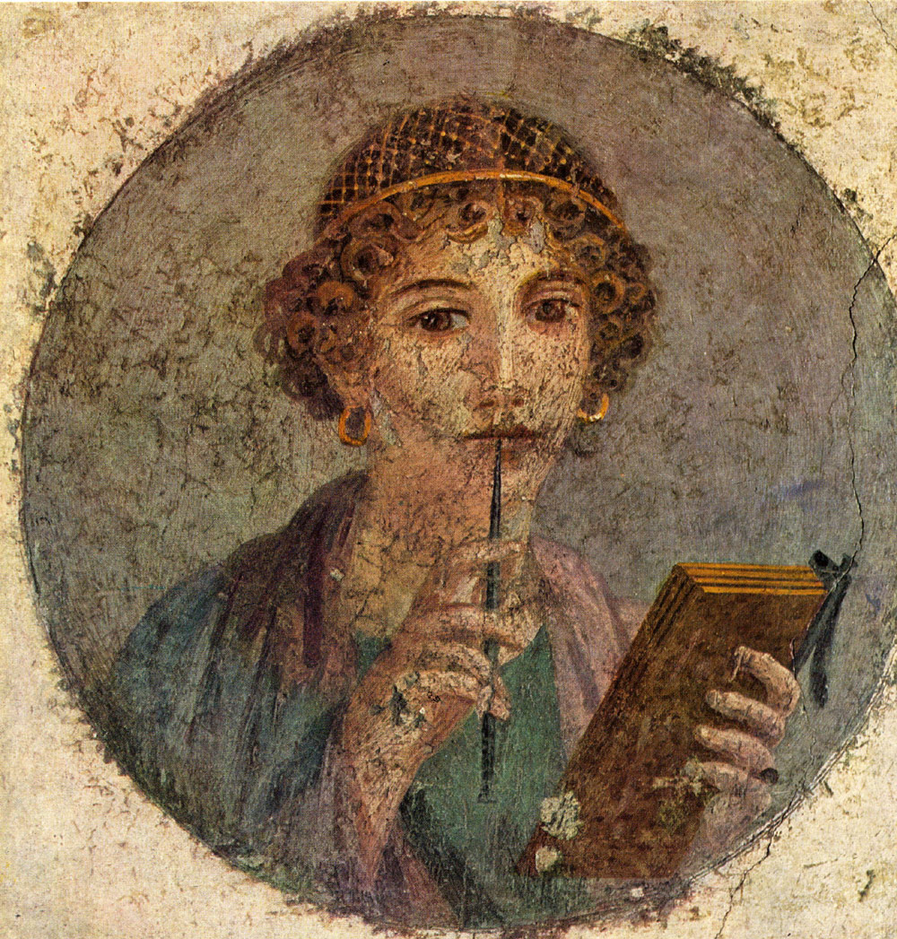 Tondo of Woman with wax tablets and stylus (so-called "Sappho"), National Archaeological Museum of Naples (inventory no. 9084). Roman fresco of about 50, from Pompeii (VI, Insula Occidentalis) - Discovered in 1760, is one of the most famous and beloved paintings, commonly called Sappho. Actually portrays a high-society Pompeian girl, richly dressed with gold-threaded hair and large gold earrings, bringing the stylus to the mouth and holding the wax tablets, notoriously accounting documents which therefore have nothing to do with poetry and even less with the famous Greek writer.